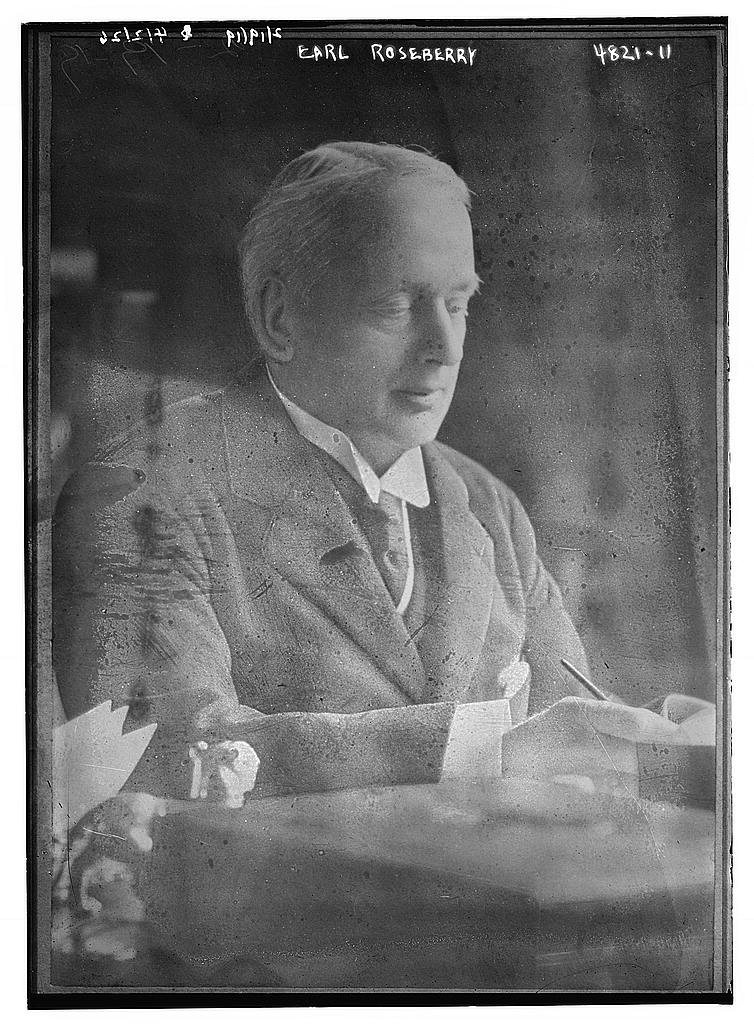 Archibald Primrose, 5th Earl of Rosebery in 1918